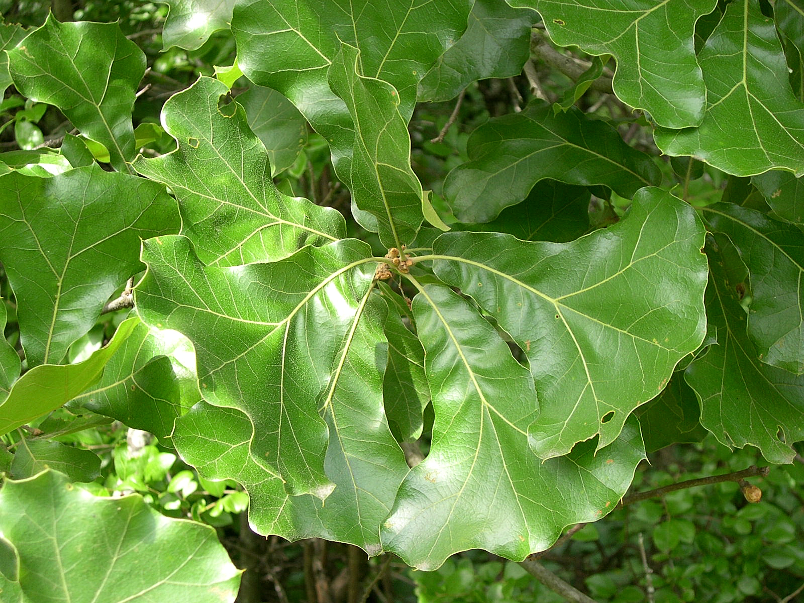 Blackjack Oak Quercus marilandica. Forest Road, Shawnee National Forest, Illinois, USA.